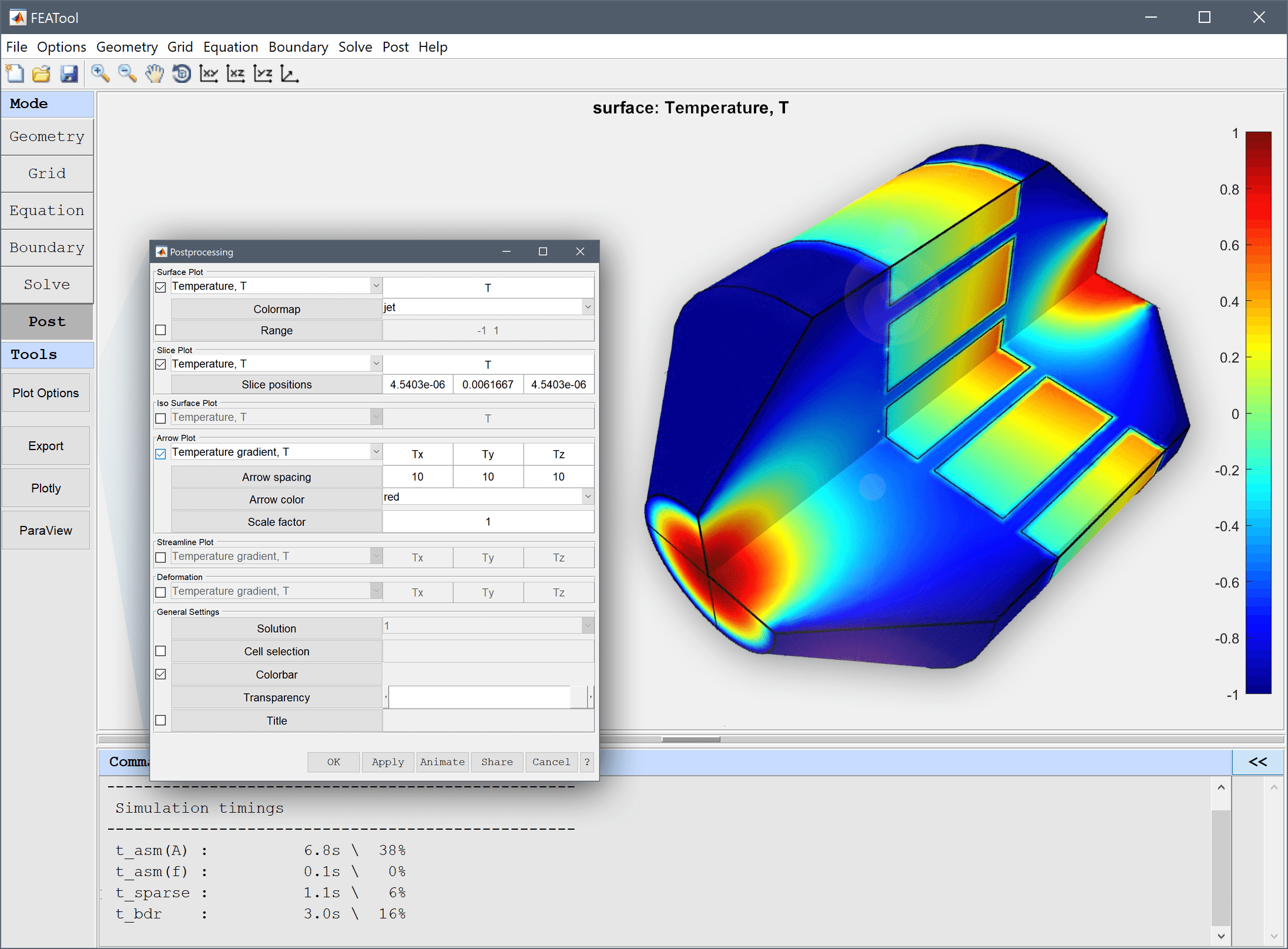 FEATool Multiphysics MATLAB GUI - Postprocessing and Visualization Mode